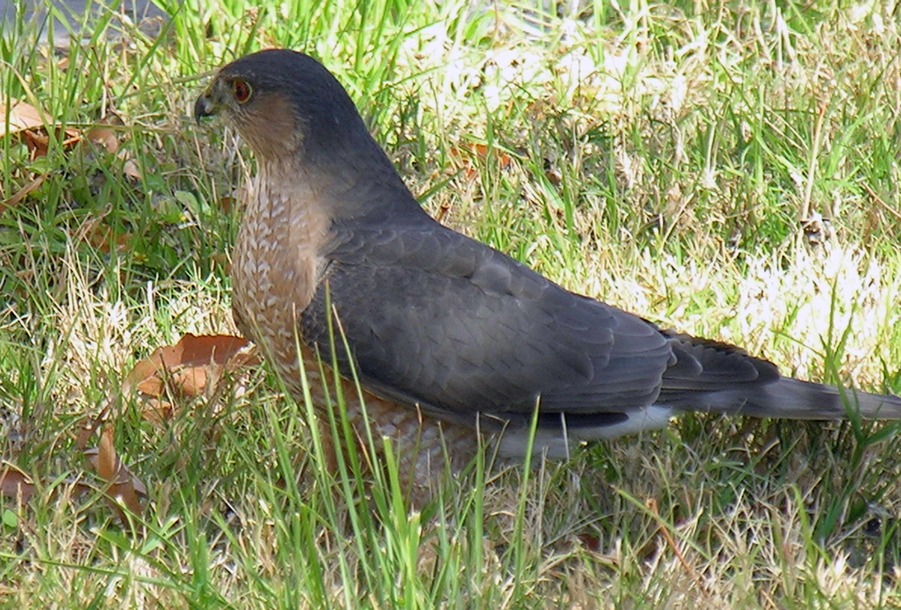 Accipiter striatus. Del Rio, Gainesville, Texas.